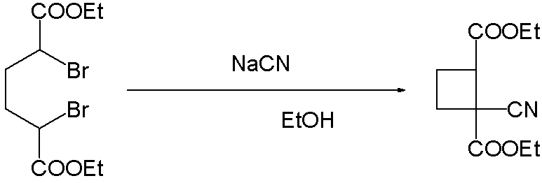 Cyclobutane By Cyanide Mediated Dibromide Coupling